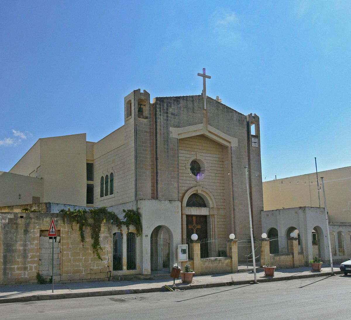 Hol Cross church in Ħaż-Żabbar, Malta